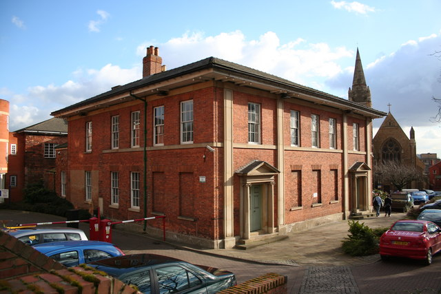 The Sessions House. A plain, brick, Georgian building by William Hayward in 1805 which served as the Sessions House with a gaol to the rear. It later became the Magistrates court and the gaol became the city police station until the new 'Ryvita House' 108443 was built in 1970. Now part of the Lincoln College.